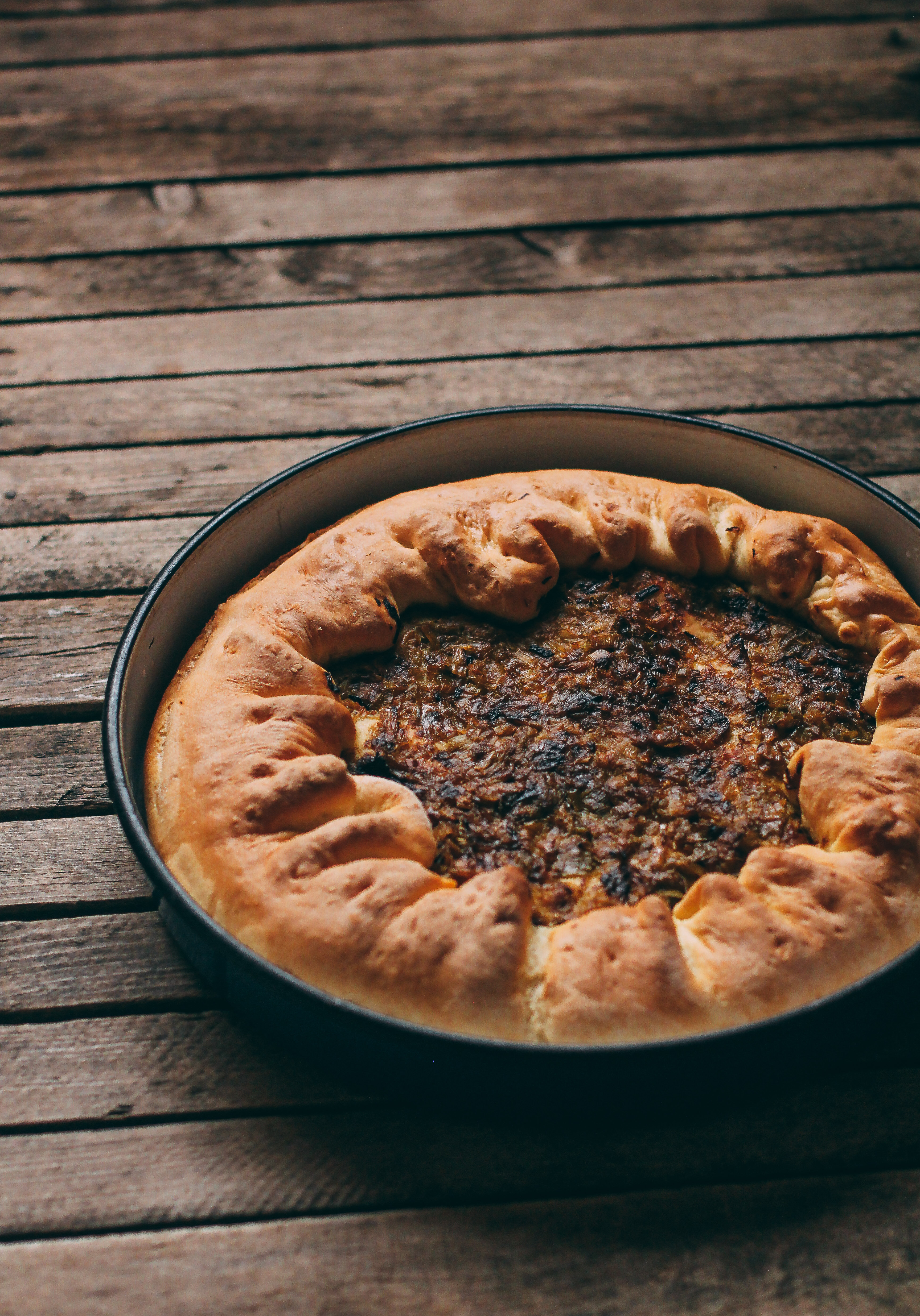 zelnik